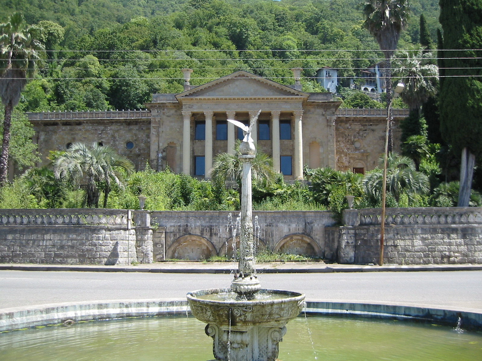 A tribute to Romantism.